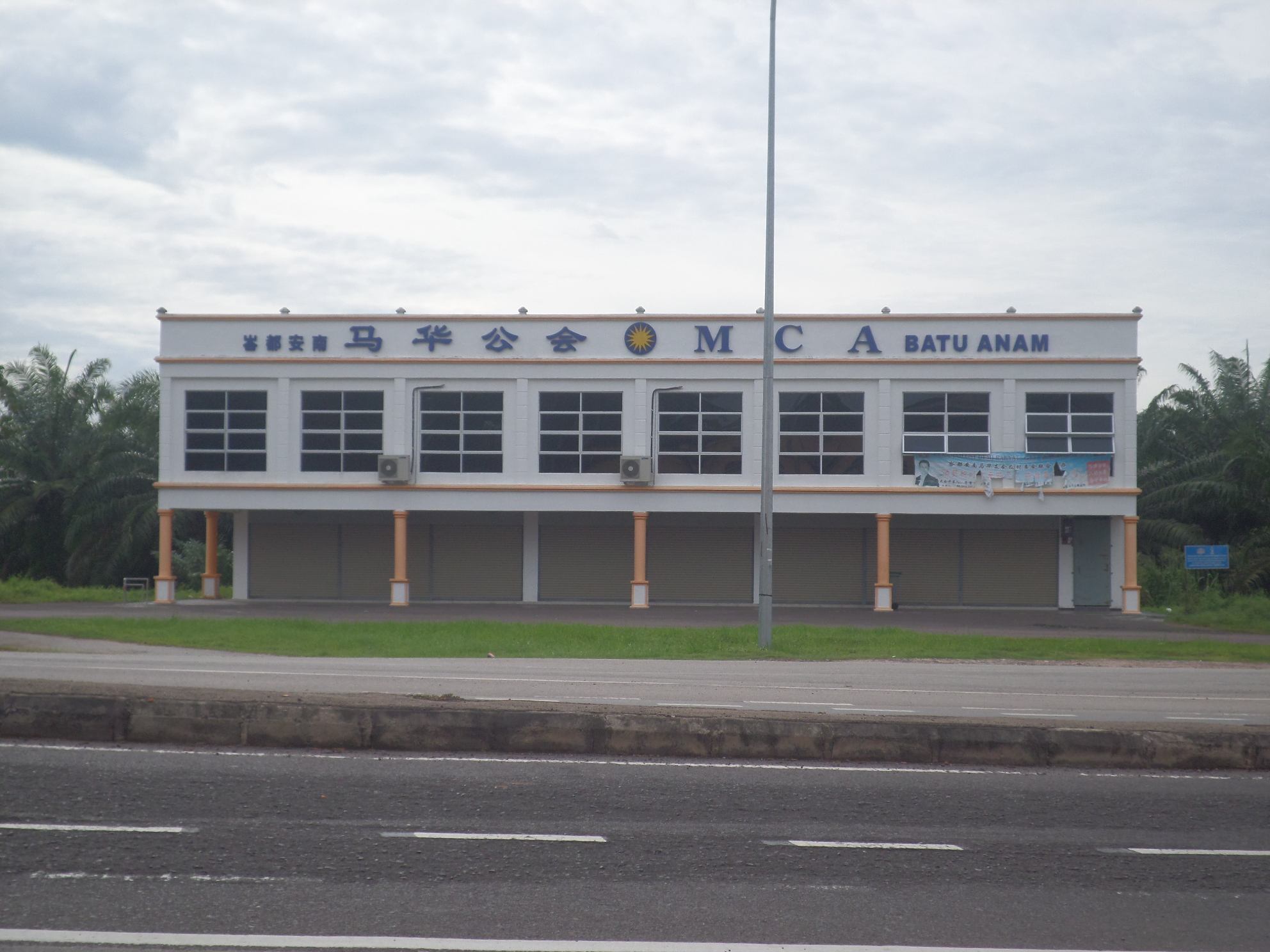 Malaysian Chinese Association, Batu Anam, Segamat, Johor, Malaysia